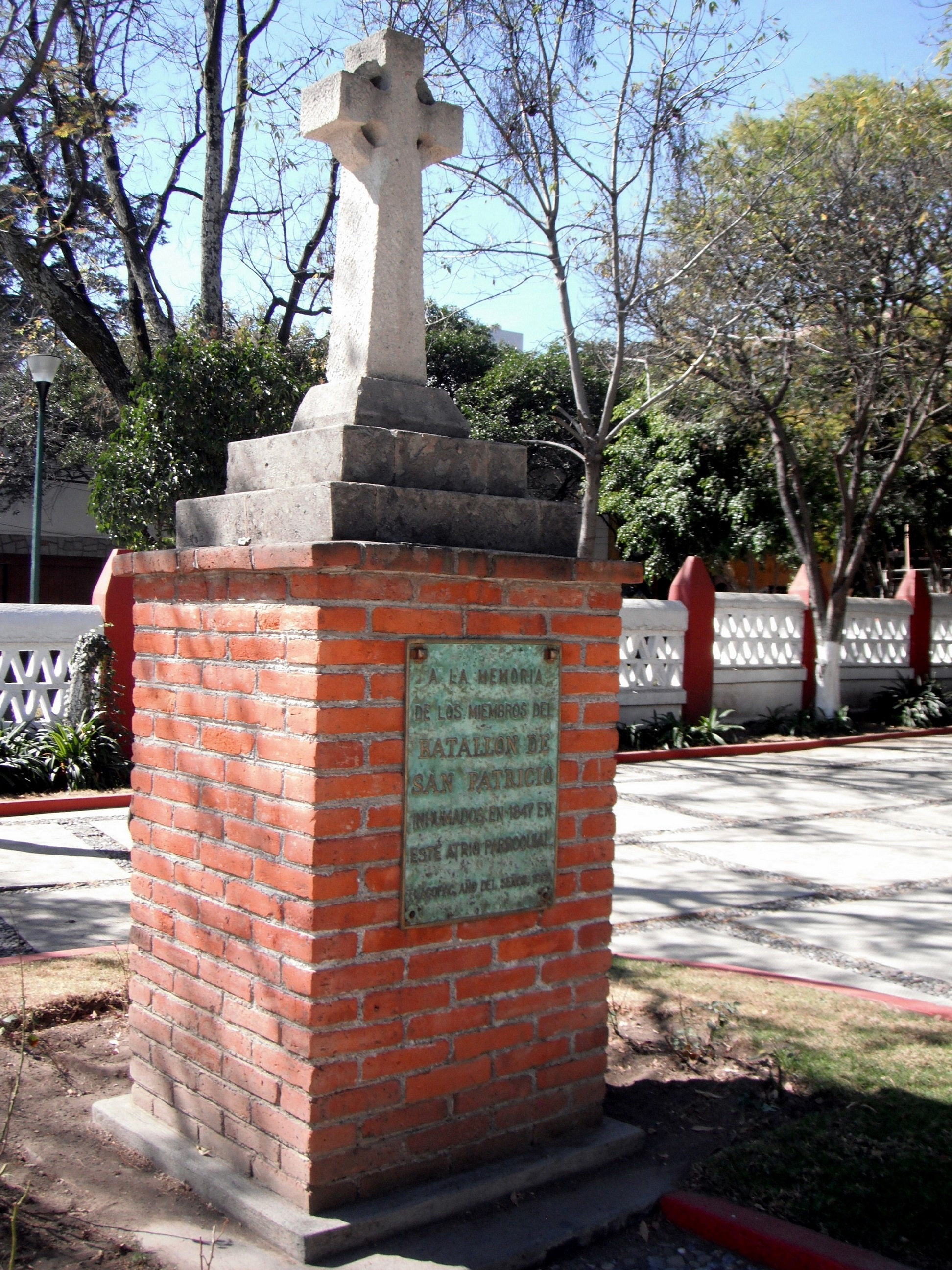 Memorial to the members of the Saint Patrick's Bataillon buried in the courtyard of Tlacopac church, Mexico city